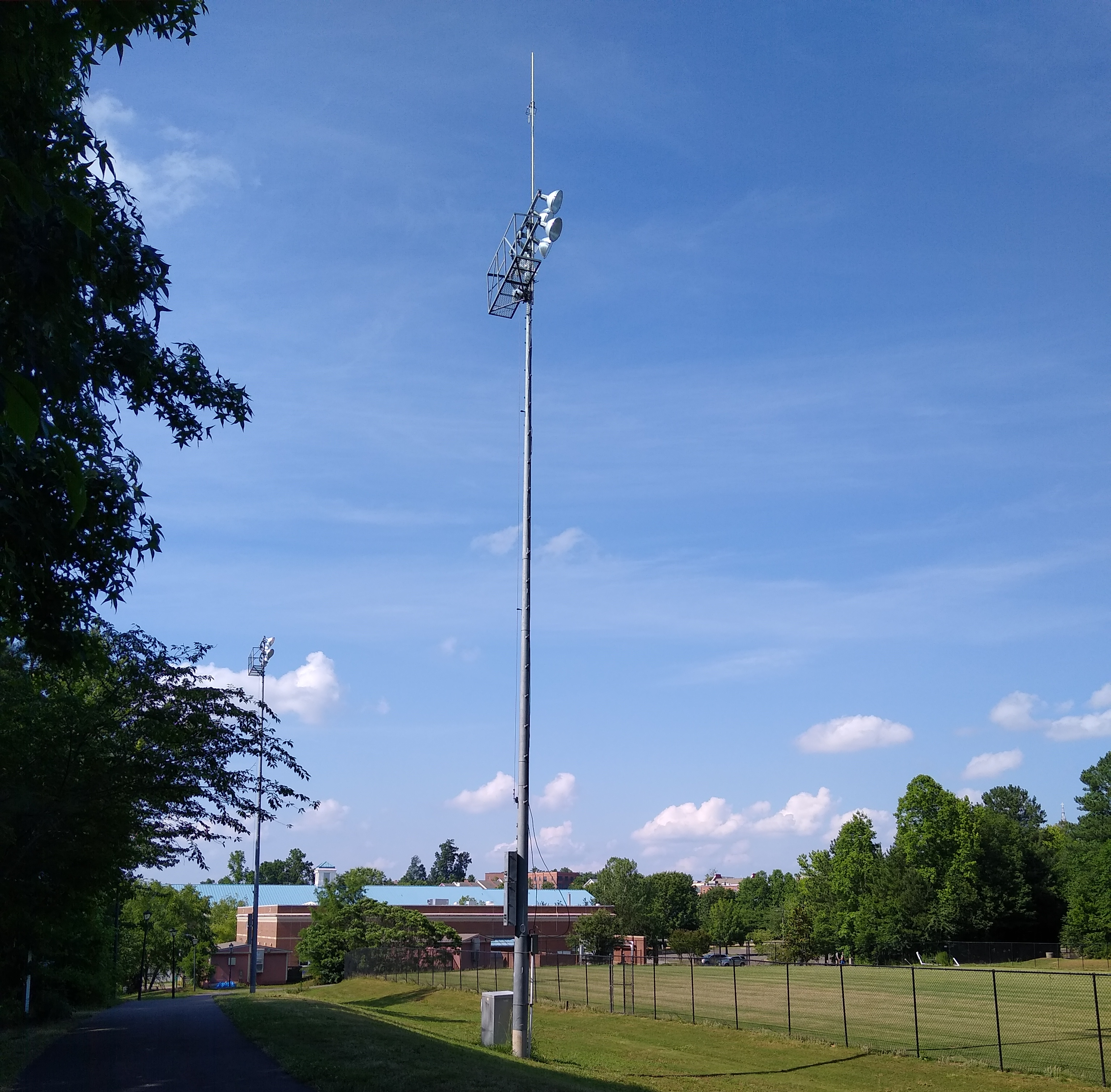 WCOM-LP radio tower, at the top of a light pole at Mary Scroggs Elementary School.